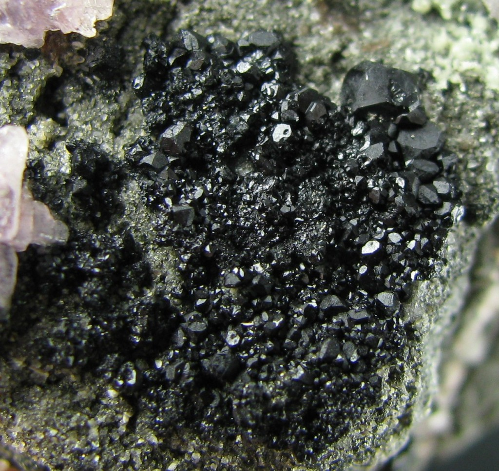 Coquimbite, Voltaite Locality: Dexter No. 7 Mine, Calf Mesa, San Rafael District (San Rafael Swell), Emery County, Utah, USA Original description: A simply outstanding small cabinet (2 x 2 x 2 inches appx.) specimen of Coquimbite with a large patch of Voltaite crystals. Very rare this fine. Also has Romerite and probable Goldichite on the specimen!